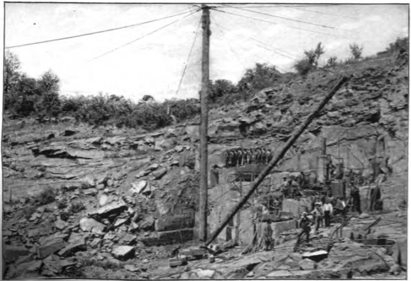 Plate XXVIII, Figure 2 of 1898 publication called Maryland Geological Survey Volume Two. Caption:Sandstone Quarry, Seneca, Montgomery County